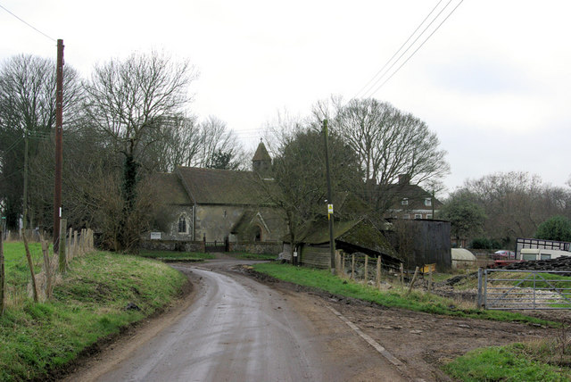 View southeast along Rectory Road, Ridley, Kent. Ahead is St Peter's parish church, with Ridley Court farmyard to the right.